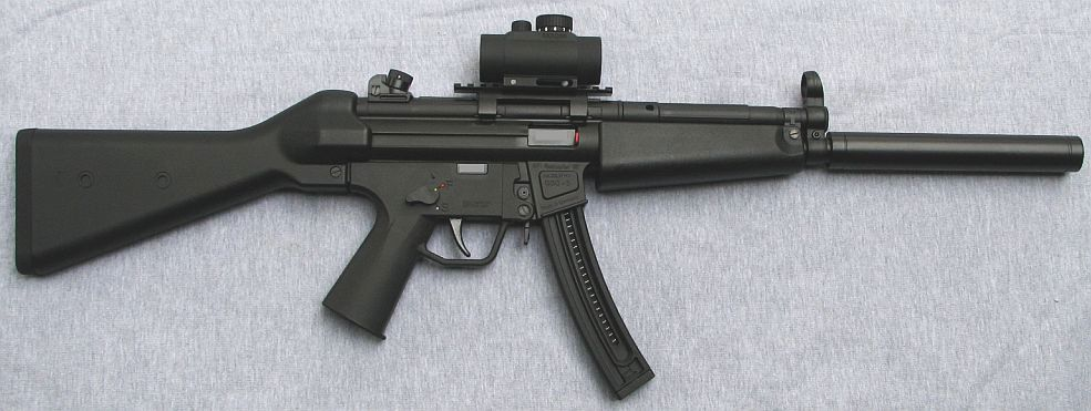 GSG-5L semi-automatic rifle in .22 Long Rifle caliber, with red dot sight.